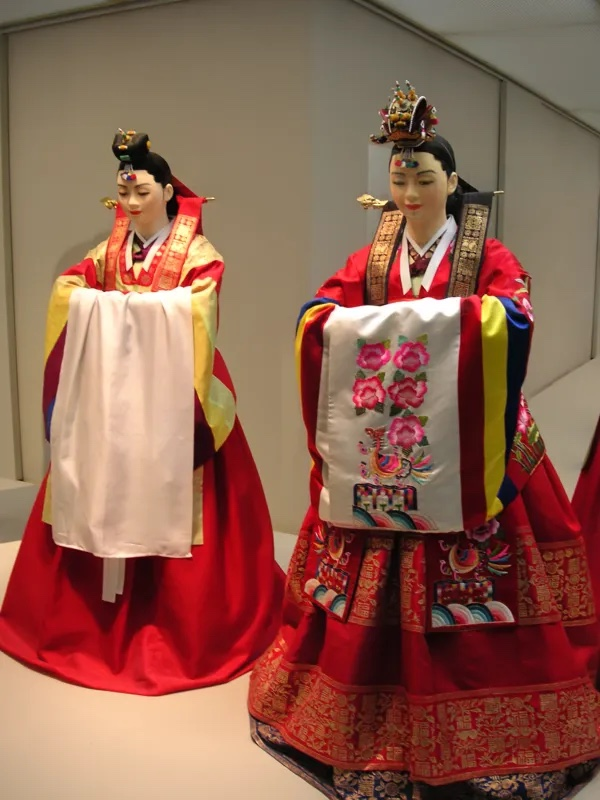 A display of models wearing hwarot, Korean traditional costume for bride. Crowns called jokduri on the left model's head and hwagwan on the right.